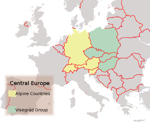 group Visegrad countries and alpine countries From english wikipedia By: User:Sinuhe. Map might be disputed: see imagepage for details.